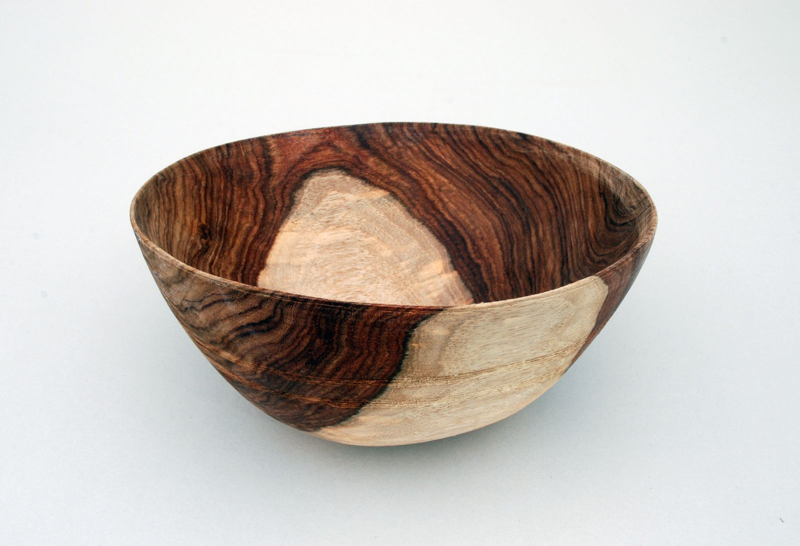 Mauritanian wooden bowl, gdah, from Nouakchott